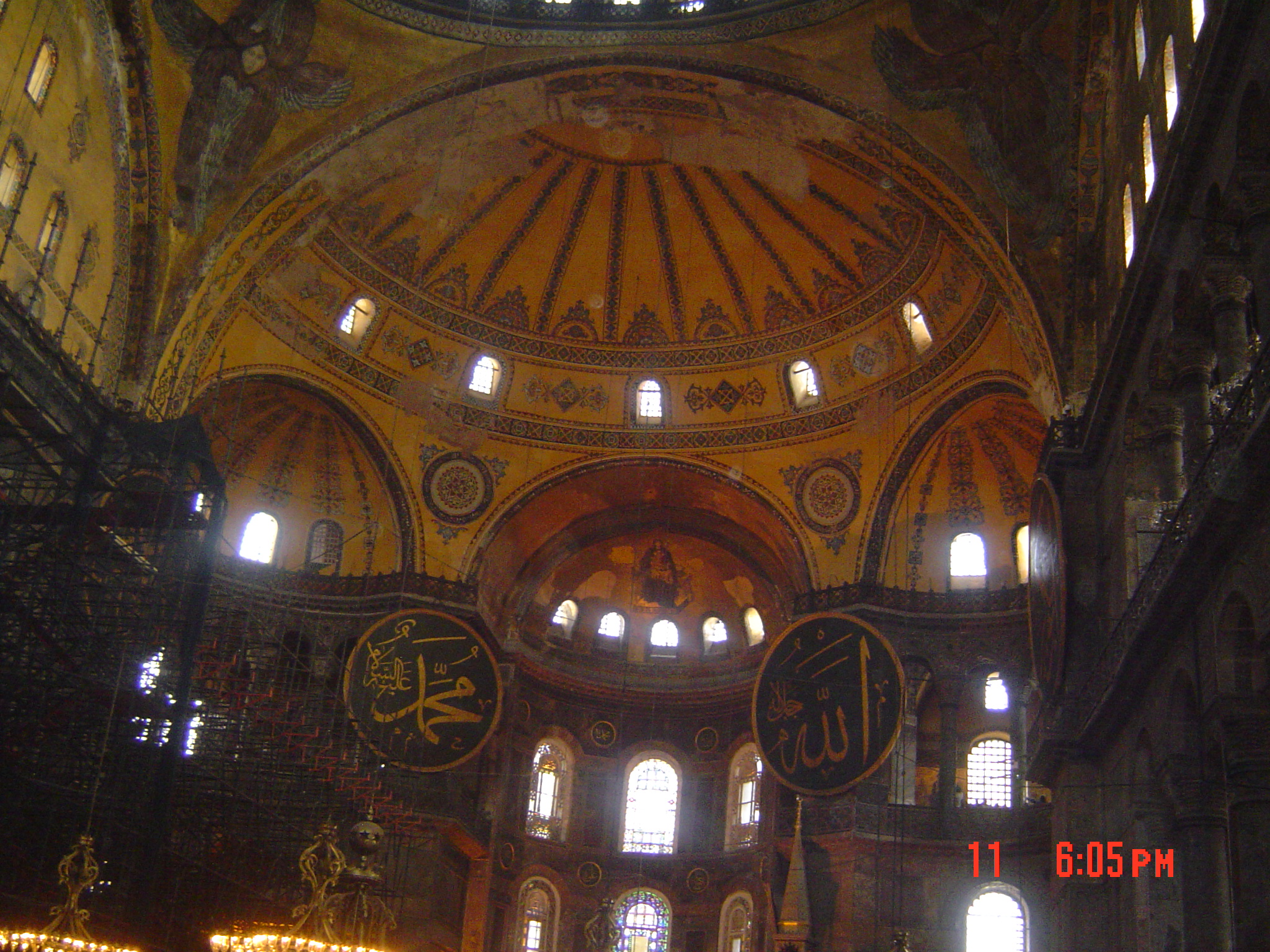 Inside Hagia Sofia